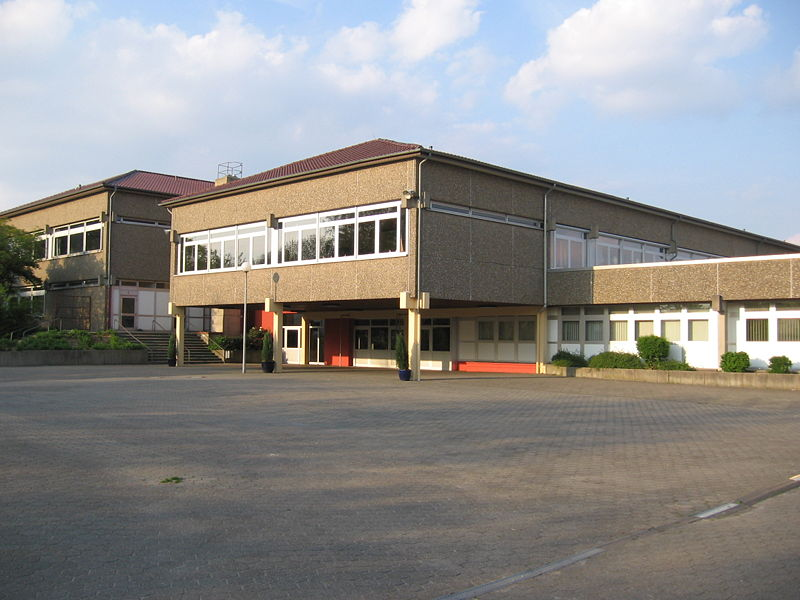 High school Twist (Germany)